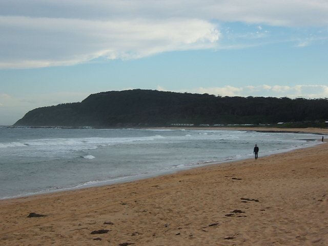 Photo of Shelly Beach with Crackneck lookout in the background this was on a day when a north east wind blew up.